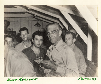 Horror movie actor Boris Karloff takes time to sign autographs for VMB-613 members following his performance. Boris Karloff visited U.S. Marine aviation squadron VMB-613 during one of a number of USO tours that performed for the men on Kwajalein in 1945. Karloff and his troupe performed Arsenic and Old Lace. Photograph is listed as public domain and is from the Clell Thorpe World War II Photographs collection; cite as: "Courtesy of Special Collections, University of Houston Libraries, UH Digital Library." Link to photograph.